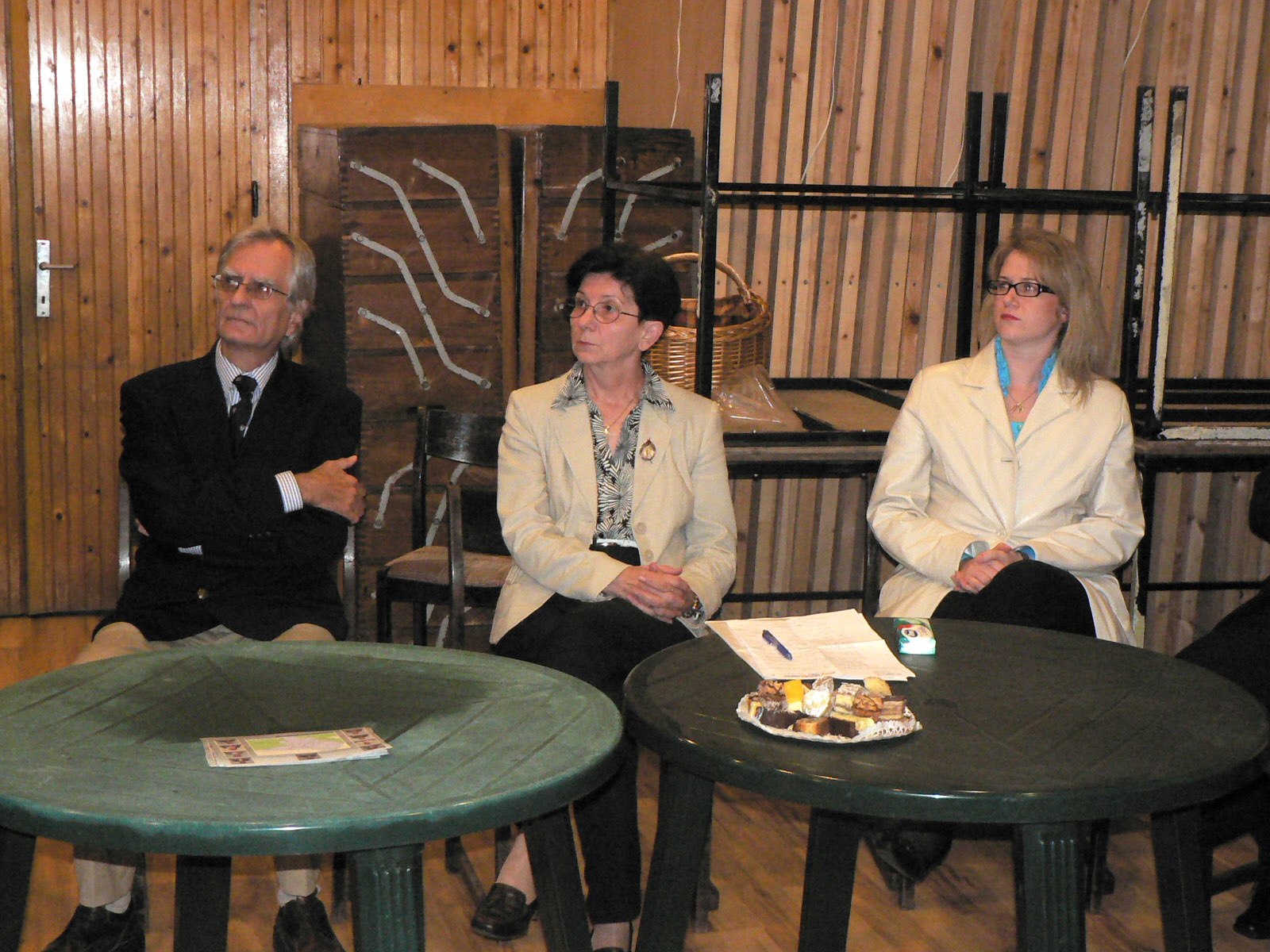 Három képviselőjelölt (Szalay Gábor, Kovács Emilné, dr. Vigh Annamária) Rétfalvi József 2010-es választási fórumán